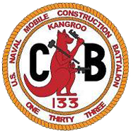 NMCB 133 Command insignia